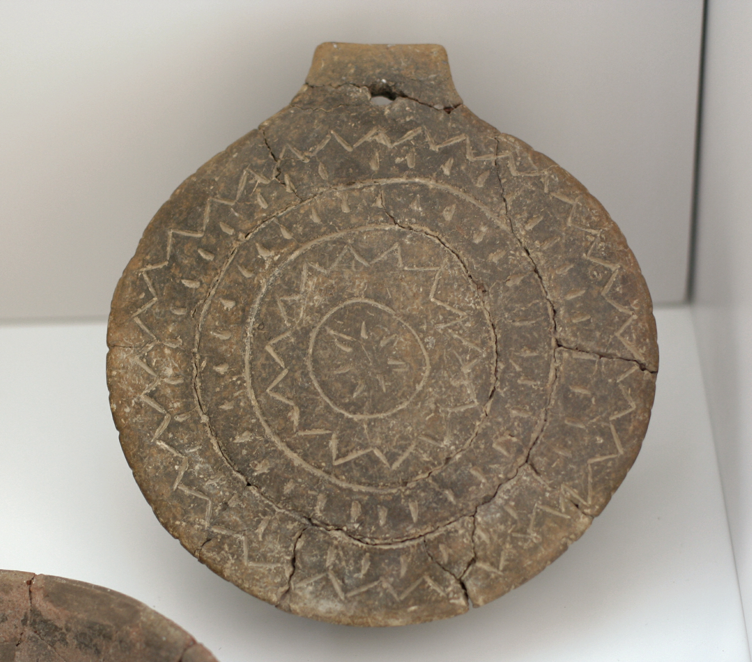 Early Minoan obscure subject, but similar to the old Cyclades. Some call him the "pan" ("Fryingpans", "Non feminine" type, Early Cycladic II period, 2800-2300 BC), but probably not for frying, others sacrificial pad or ceremonial standards. Found: The necropolis of Agia Fotia, Siteia. Early minoan (EM I-II), 3000-2500 BC. Archaeological museum of Ag. Nicolaos on Crete.